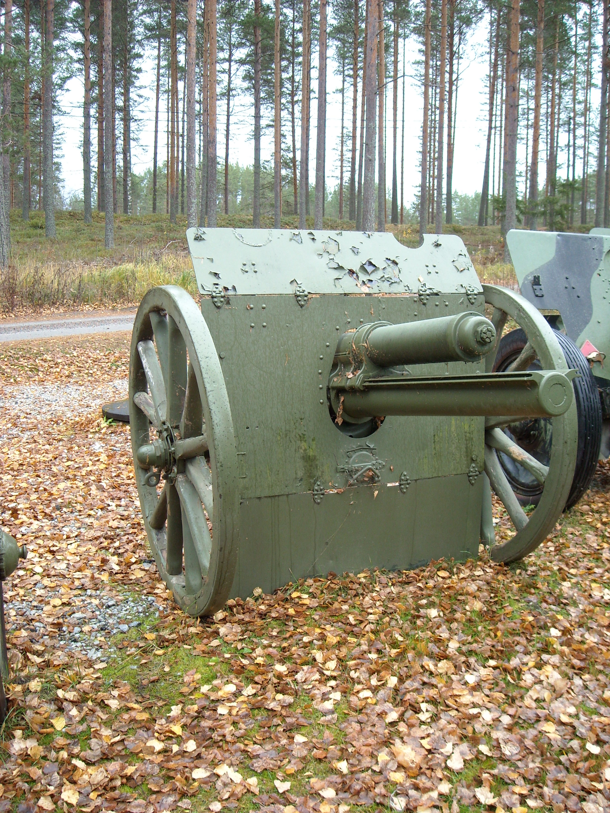 U.S. made 75 mm cannon m/1917. Used in (for instance) Defence Forces of Finland at World War II.